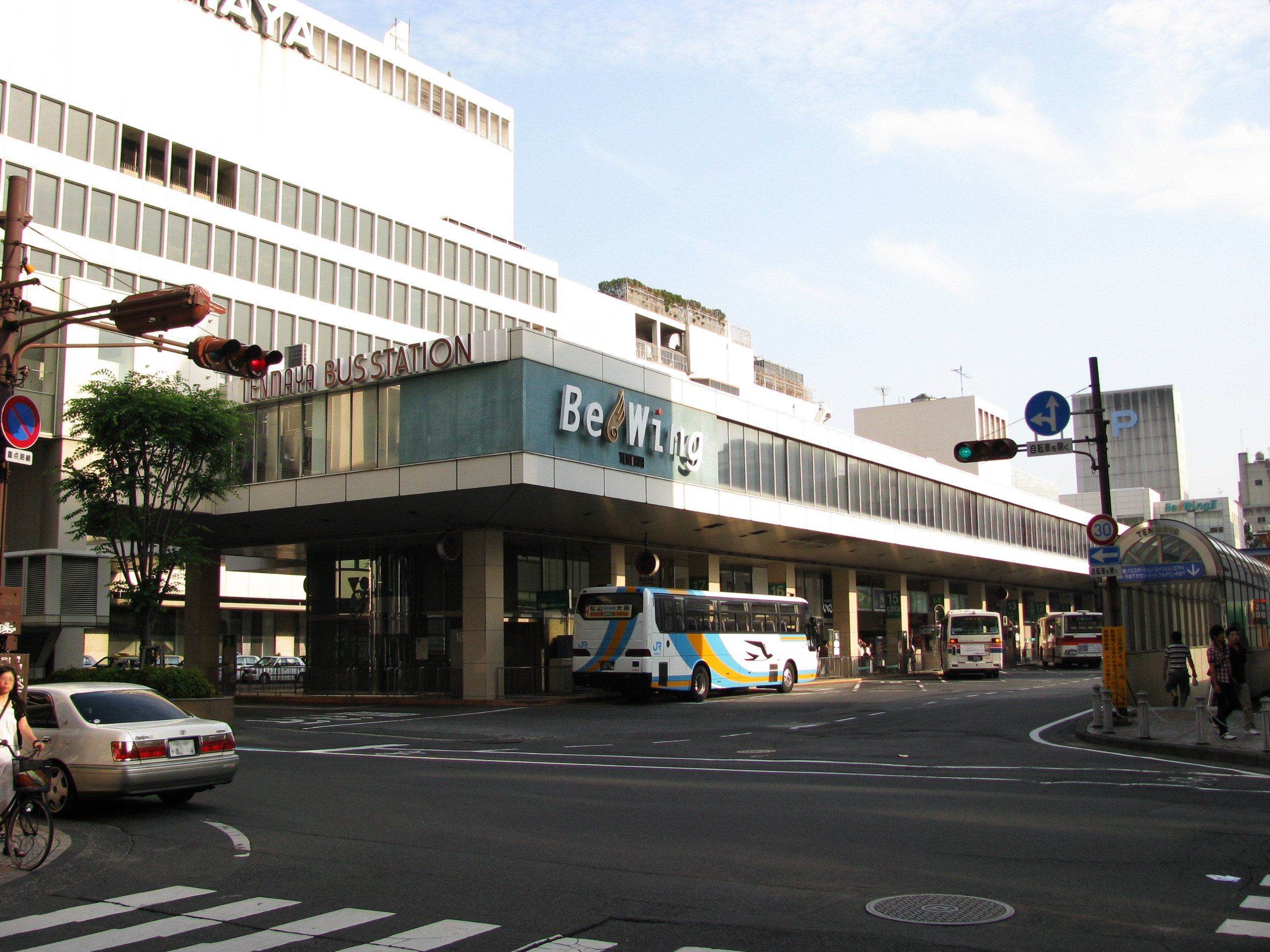 The Tenmaya Bus station. This place is Kita-ku, Okayama, Okayama Prefecture, Japan.